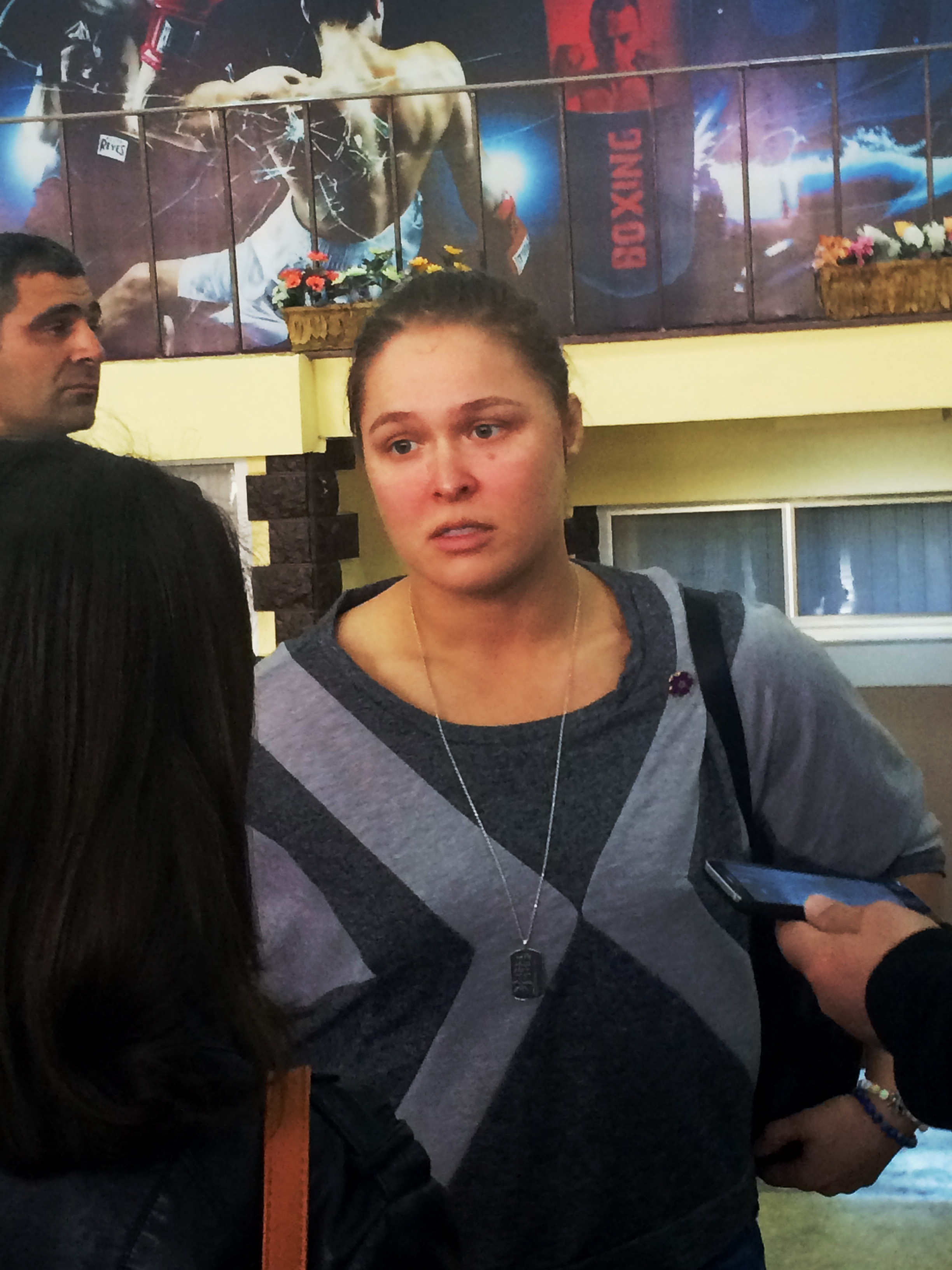 Ronda Rousey after her open workout at Dinamo center, Yerevan, Armenia.